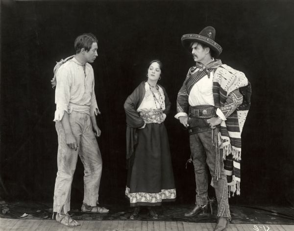 From left to right, Monte Blue, Miriam Cooper, and Hobart Bosworth pose in costume for a publicity still for the 1917 silent drama Betrayed.